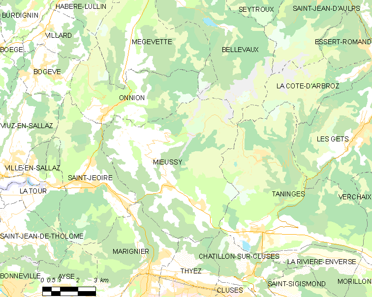 Map of French municipality Mieussy